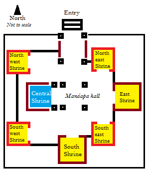 Plan of Magderu, 8th century Hindu temple in Gujarat, India